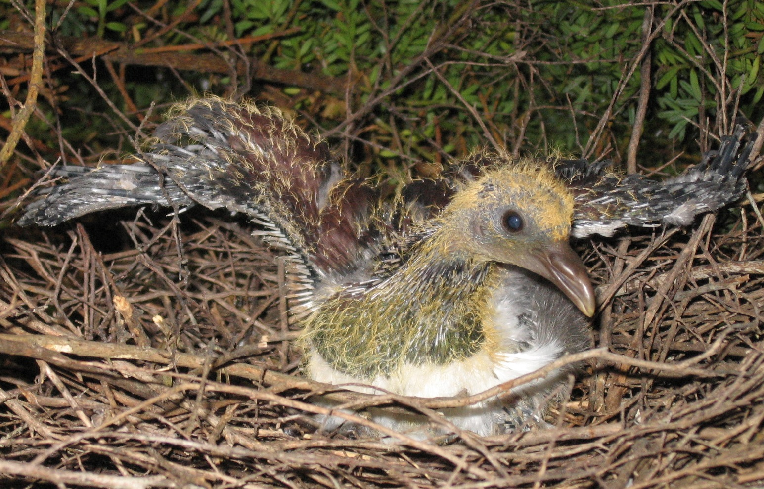 A newly hatched Kereru chick